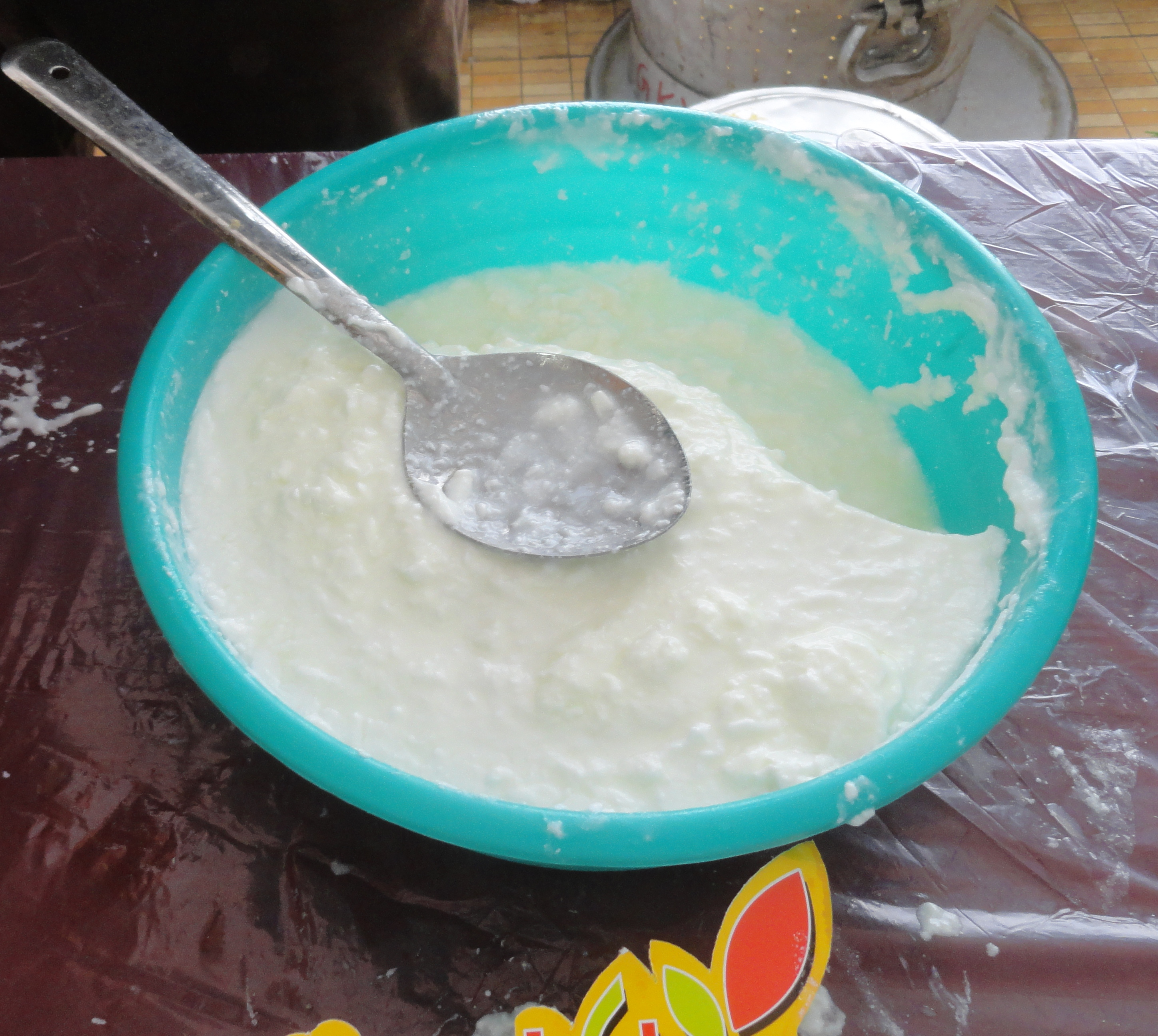 Curd. a compulsory dish in a meal of Hyderabad